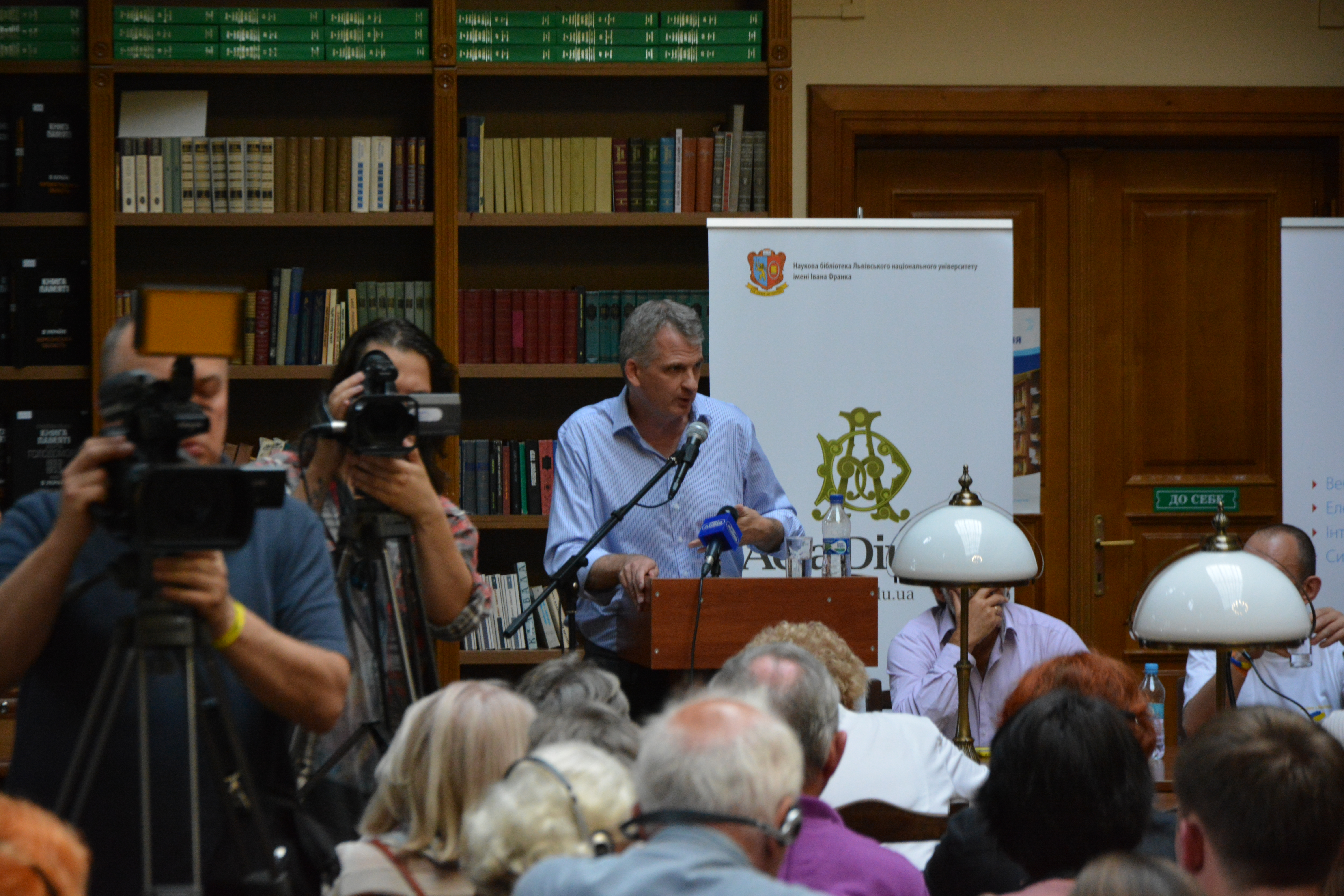 Timothy David Snyder at the public lecture at Lviv Publishers’ Forum-2014. Timothy David Snyder (born in 1969)[2] is an American historian, author and academic specializing in the history of Central and Eastern Europe, in particular – Ukraine, Poland and Russia, mostly focused on history of XX century, the researcher of nationalism, totalitarianism and Holocaust. He is a professor at Yale University, a member of the Council on Foreign Relations.He’s author of 8 books on history, including famous in Ukraine “Bloodlands. Europe Between Hitler and Stalin” (2010)